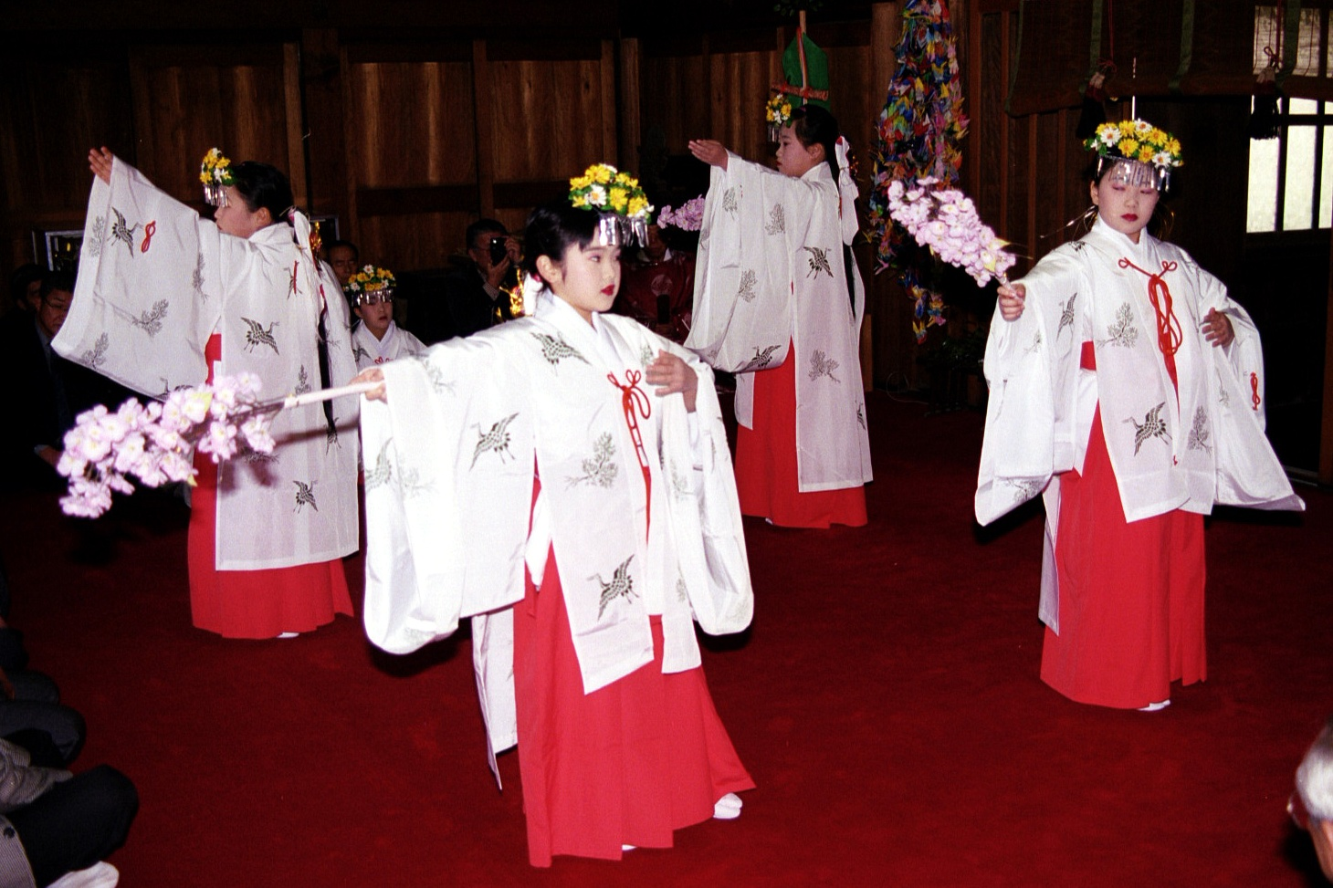 Toyosaka-no-mai(miko dance)